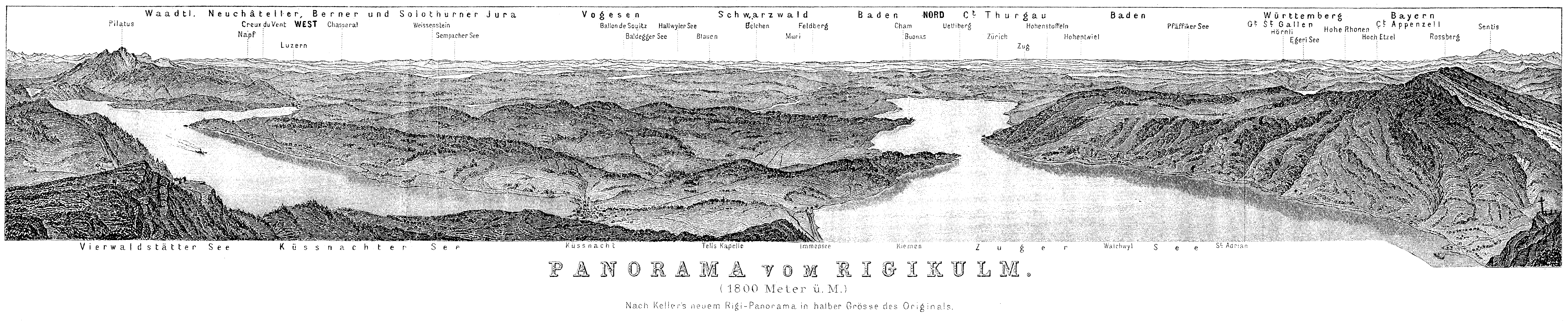 Panaroma from the Rigi Kulm, Switzerland, 1913 or earlier. Steel engraving by Bertrand after a lithography of Heinrich Keller.